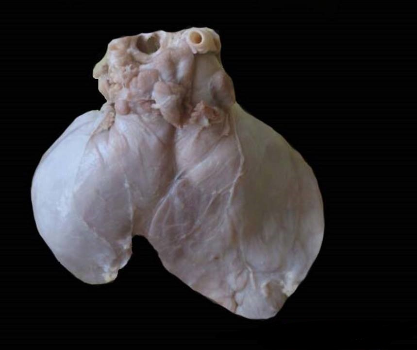 Human thymus anterior view